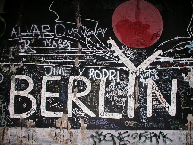 One of the painting of The East Side Gallery